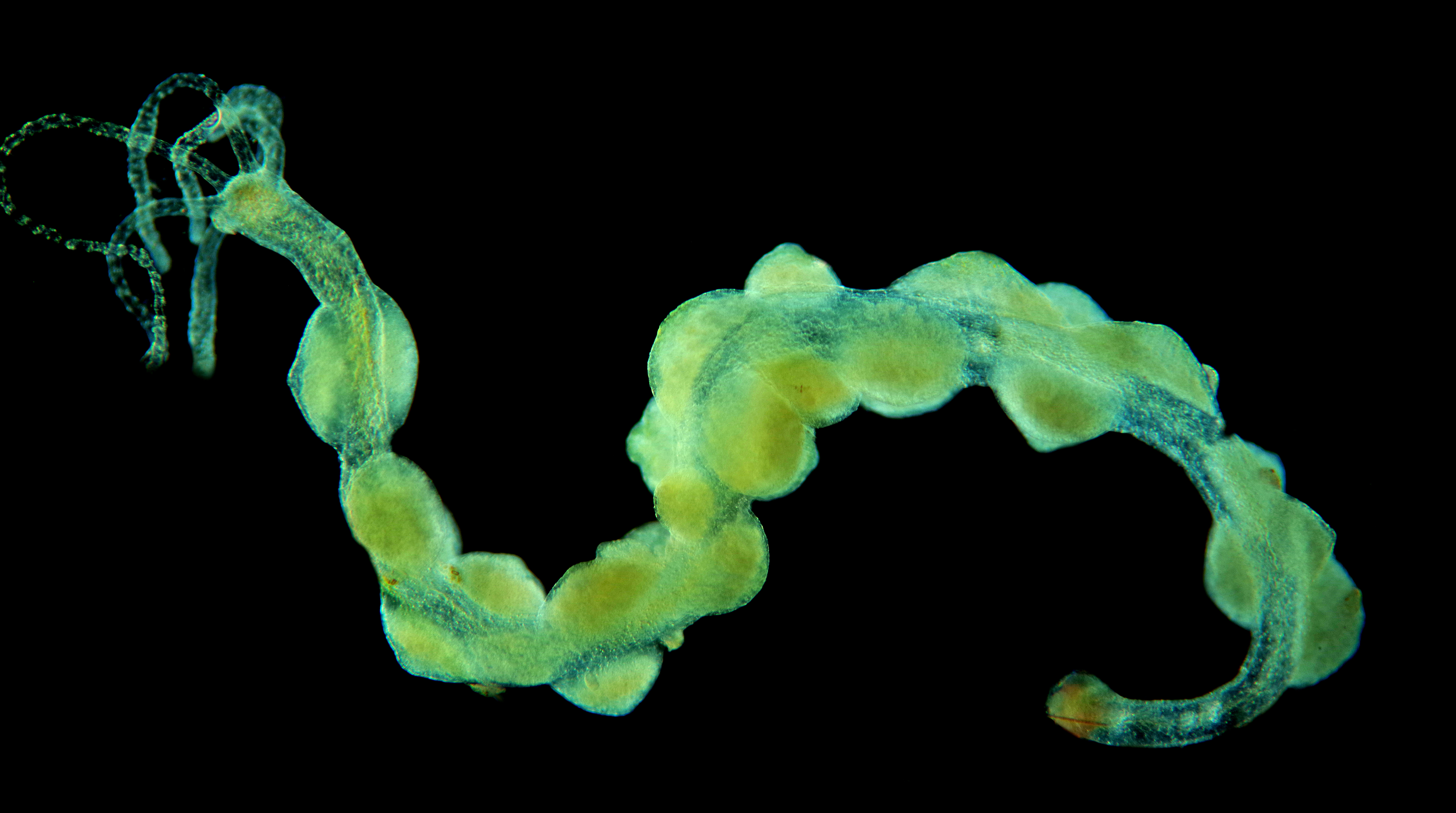 The image presents Hydra with numerous testis. It is ready to sexual reproduction. Magnification is 25X. Technique of the illumination: dark field and polarized light.